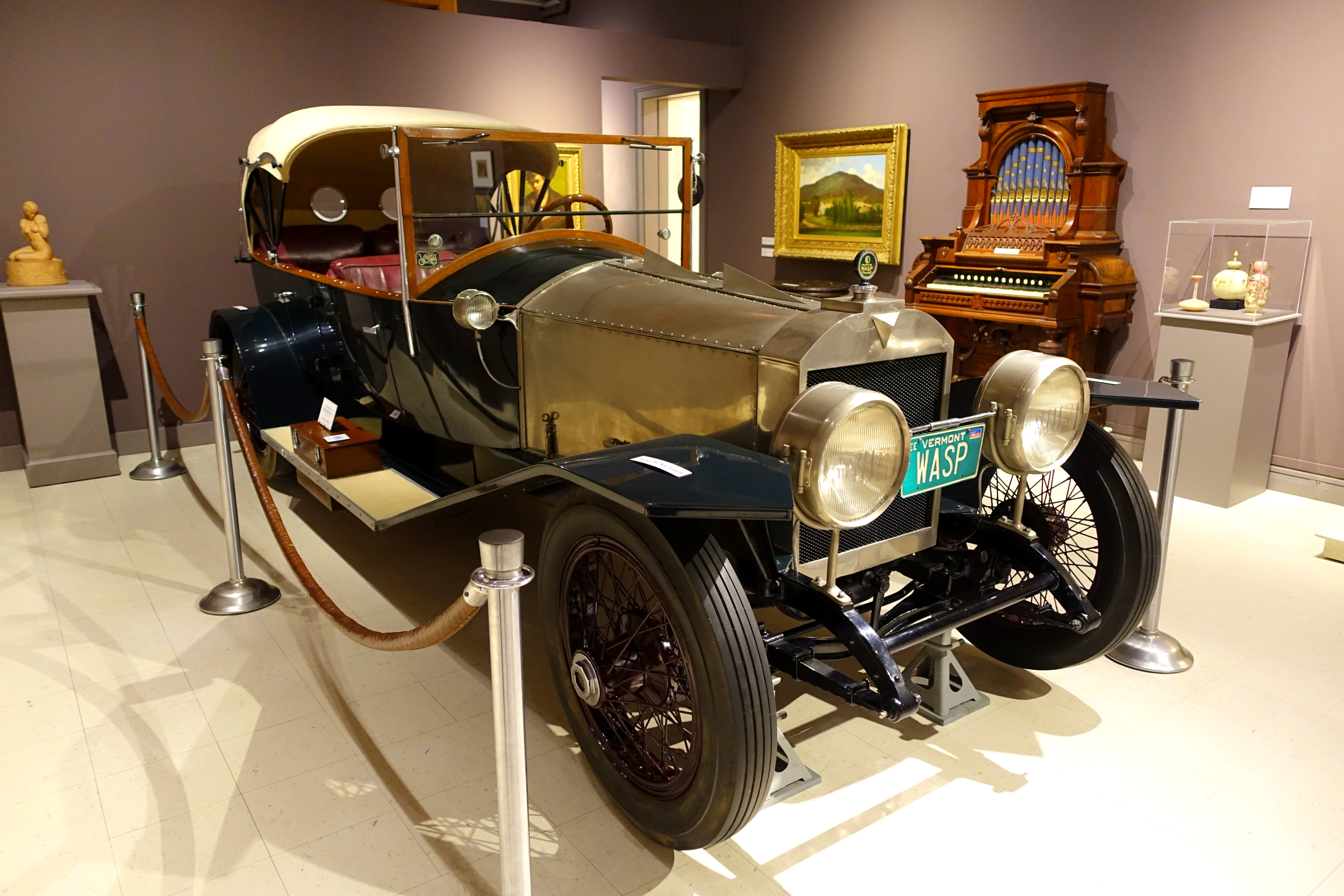 Exhibit in the Bennington Museum - Bennington, Vermont, USA. This work is in the public domain because the artist died more than 70 years ago.